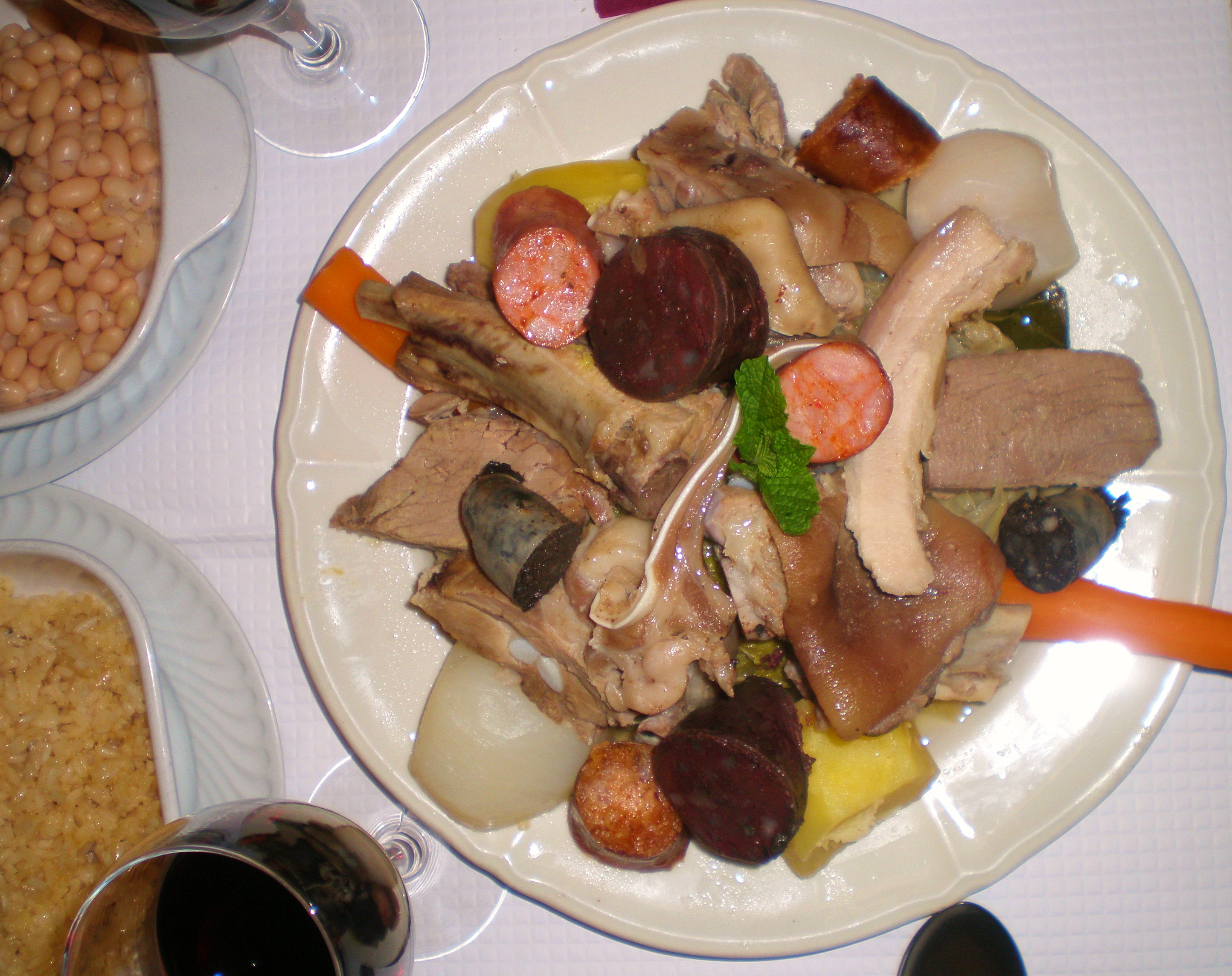 Traditional "Cozido à Portuguesa", photo from Cristovão restaurant at Linda-a-velha, Oeiras